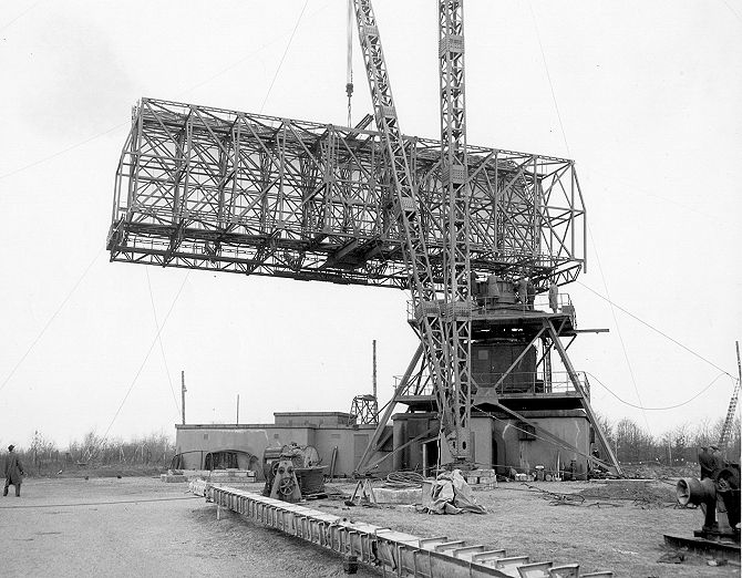 The main bearing of the Type 80 radar run by the 1st Canadian Air Division at Metz failed and had to be replaced. This was a non-trivial operation that took three months to complete.